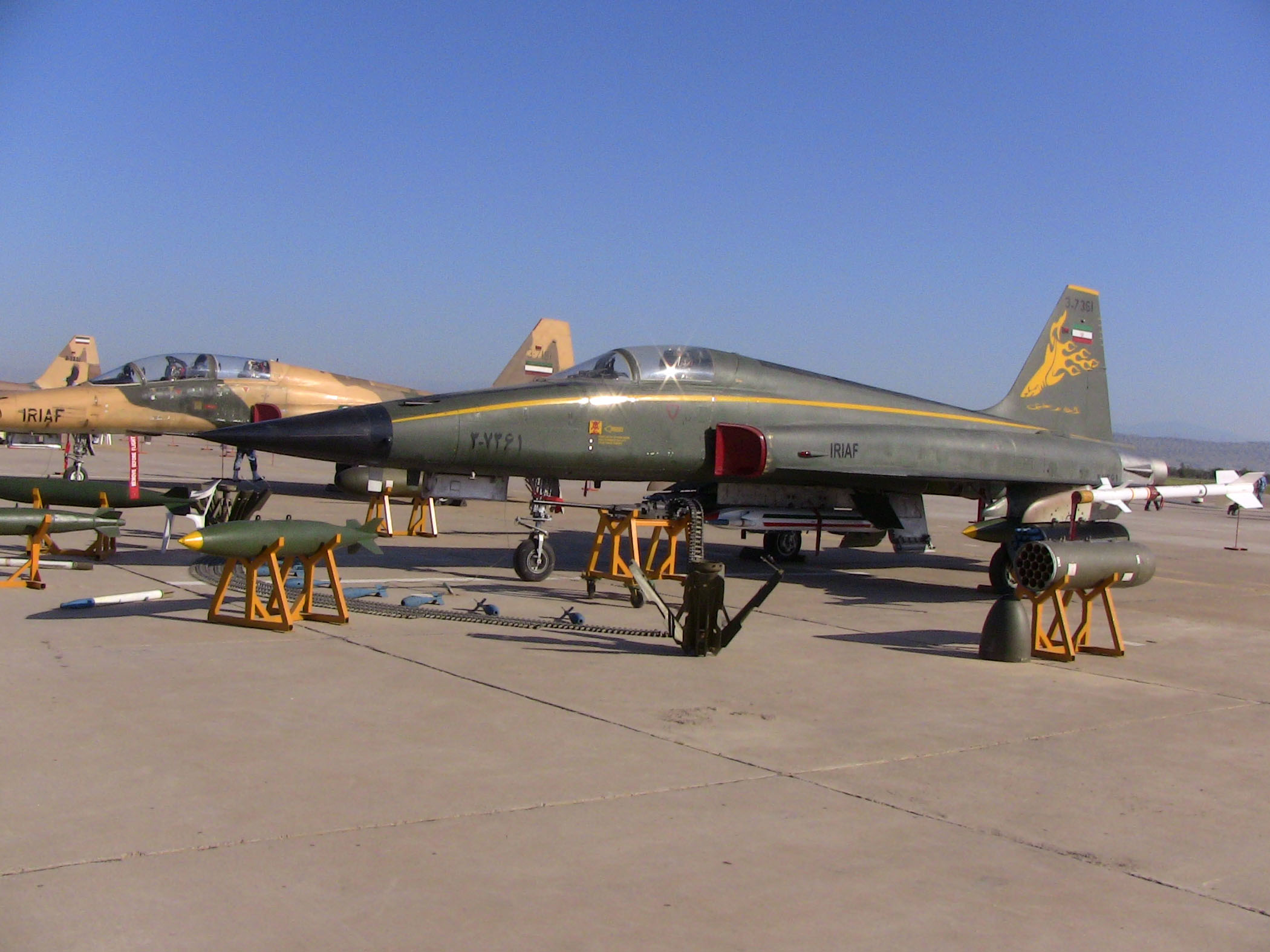 An Islamic Republic of Iran Air Force HESA Azarakhsh in Vahdati Airbase Air Show.